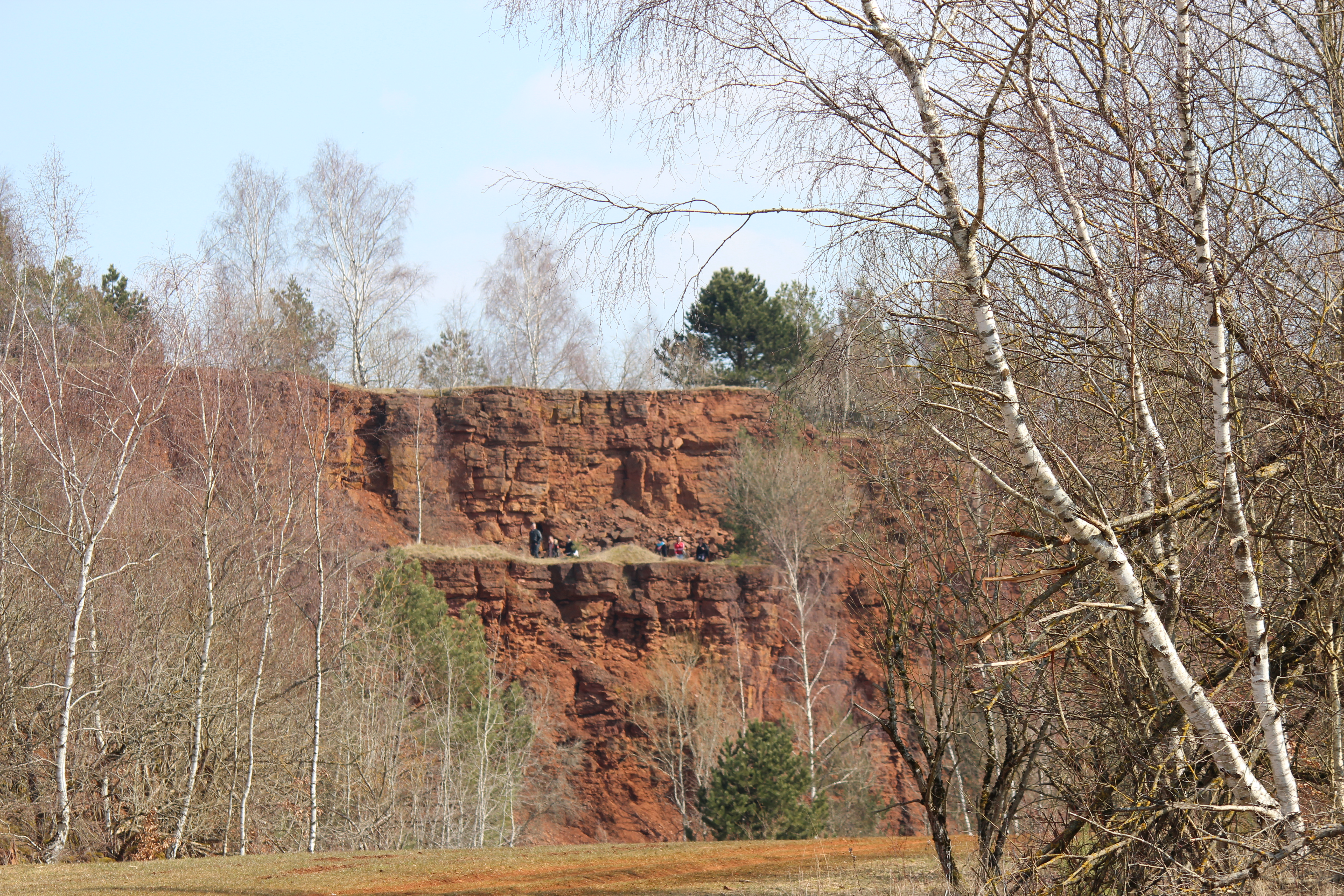 Landscape in a former open space iron ore mining area near Esch-sur-Alzette, Luxembourg (area between Lallengerbirg, Nossbierg and Käler Poteau).